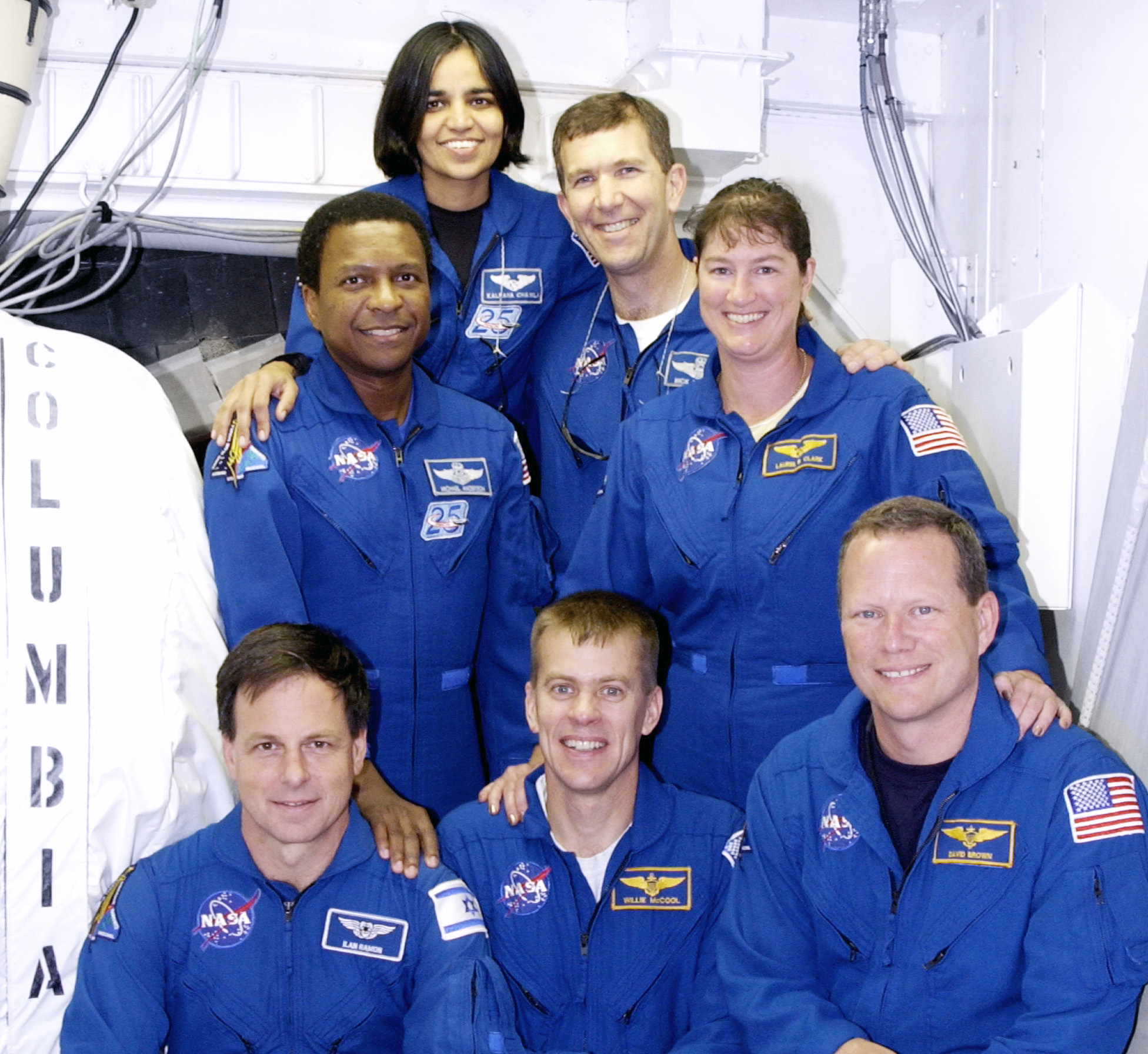 The STS-107 crew, clockwise from top: Mission Specialist Kalpana Chawla, Commander Rick Husband, Mission Specialists Laurel Clark and David Brown, Pilot Willie McCool, Payload Specialist Ilan Ramon and Payload Commander Michael Anderson.